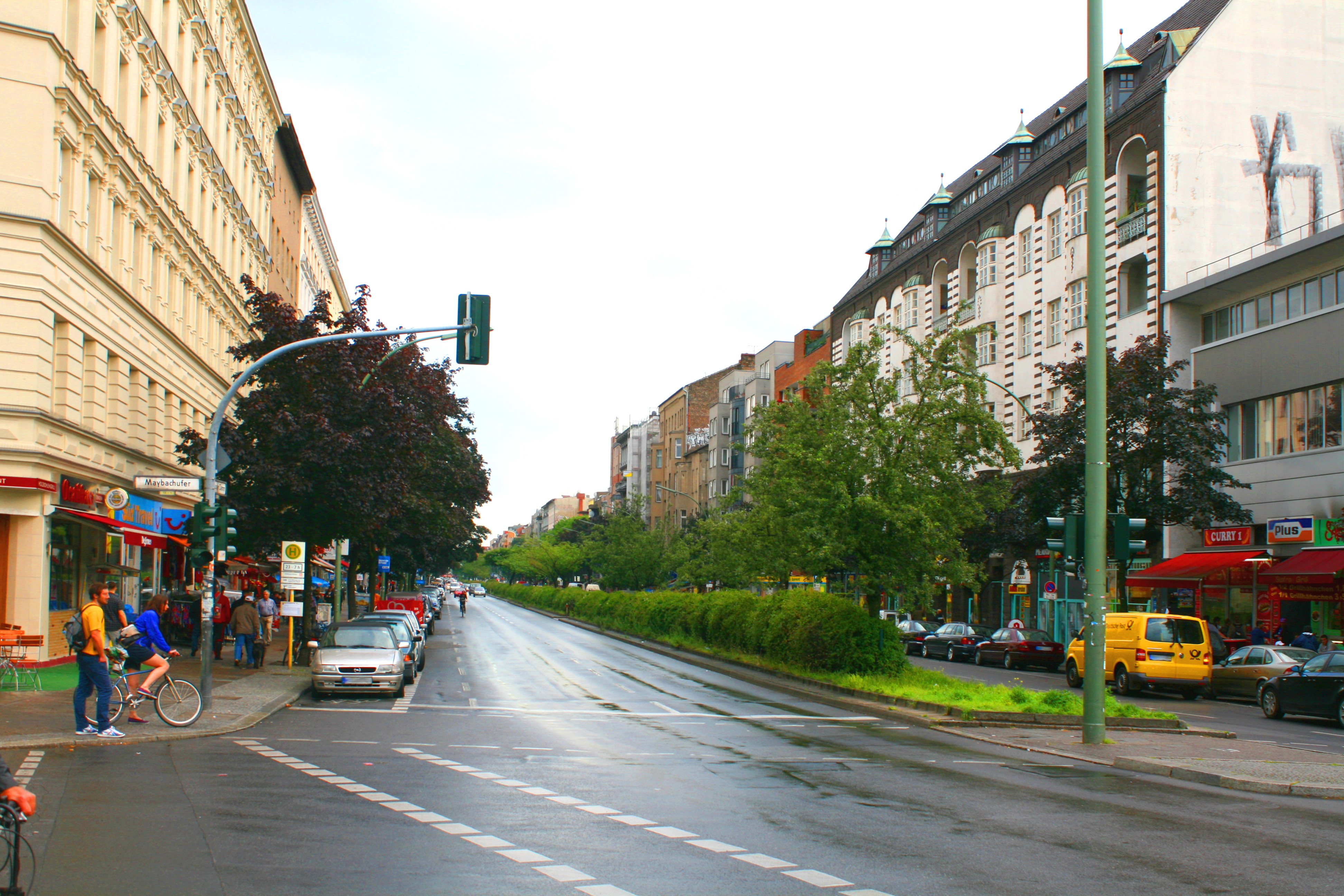 Kottbusser Damm in Berlin-Kreuzberg and Berlin-Neukölln. Direction of view is from the northern End of the Kottbusser Damm (near Kottbusser Brücke) south.